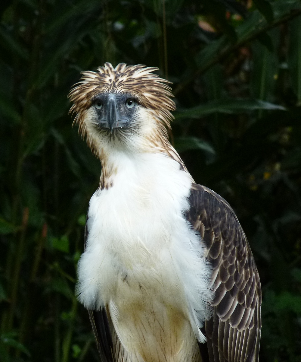 Pithecophaga jefferyi